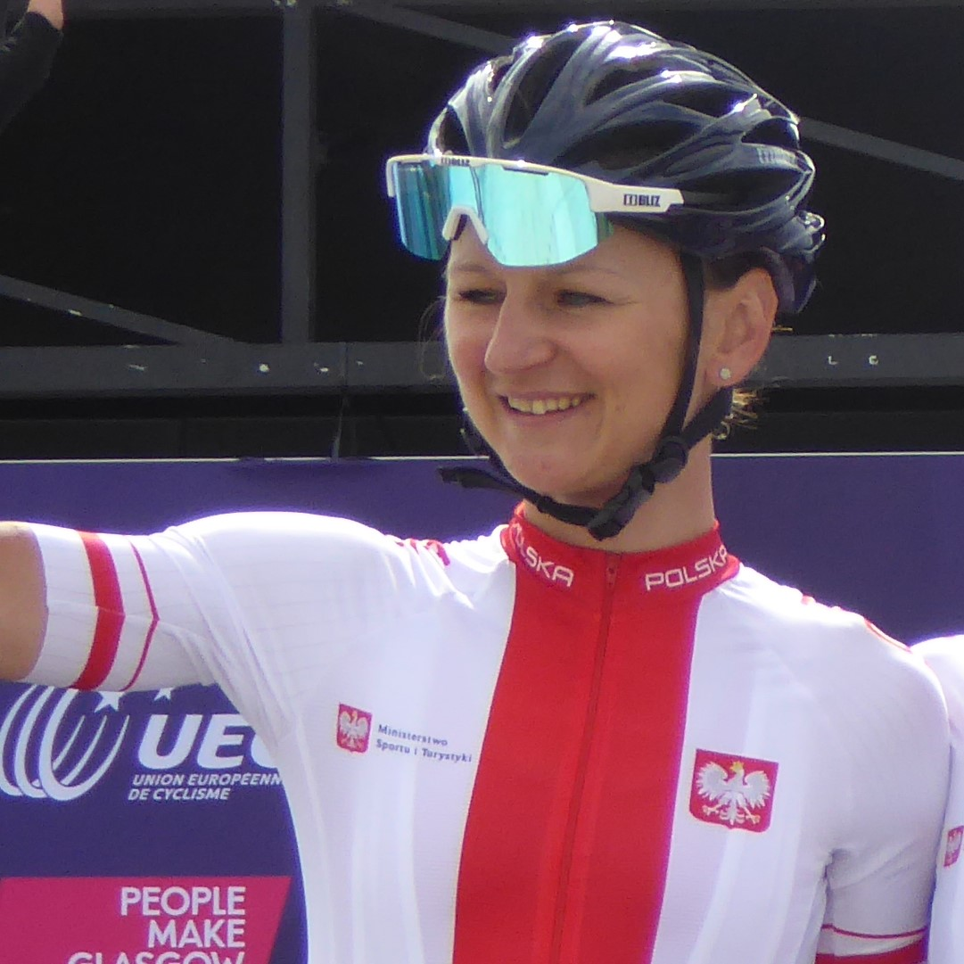 Katarzyna Pawłowska (Poland), prior to the women's road race at the 2018 UEC European Road Cycling Championships in Glasgow.